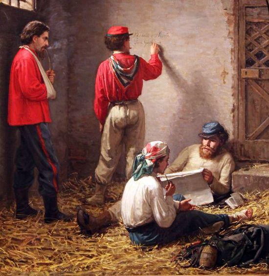 Patriotic oil